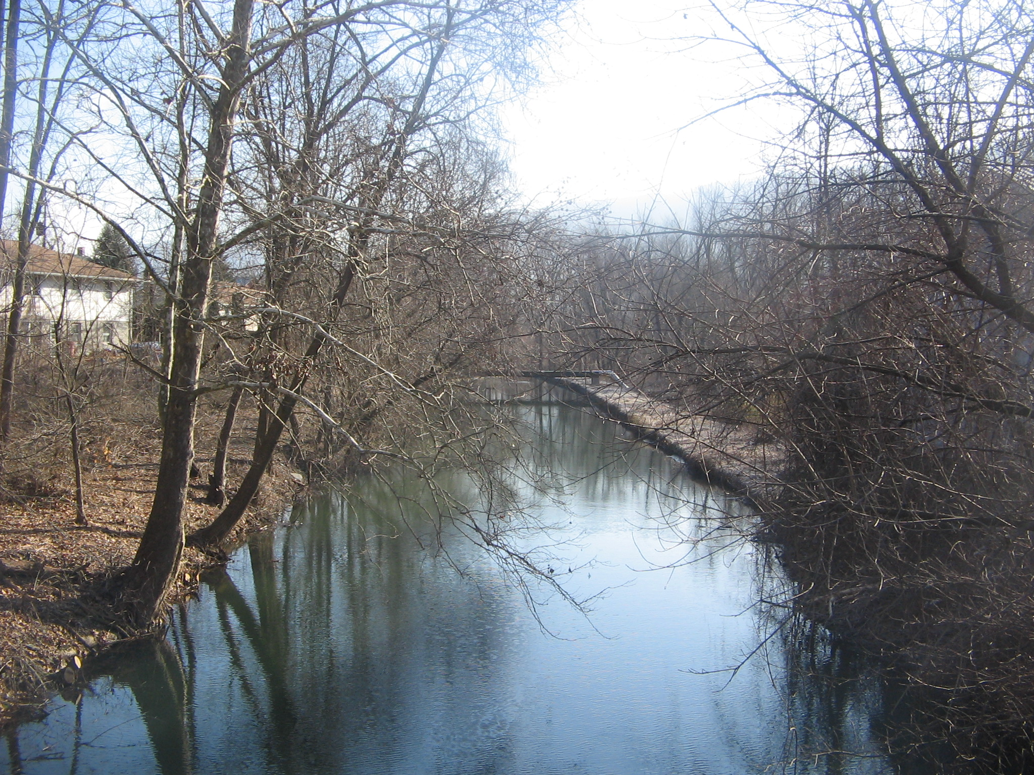 Remnants of the Bald Eagle Crosscut Canal, in the borough of Flemington, Clinton County, Pennsylvania, USA. View is looking east from the Pennsylvania Route 150 bridge.